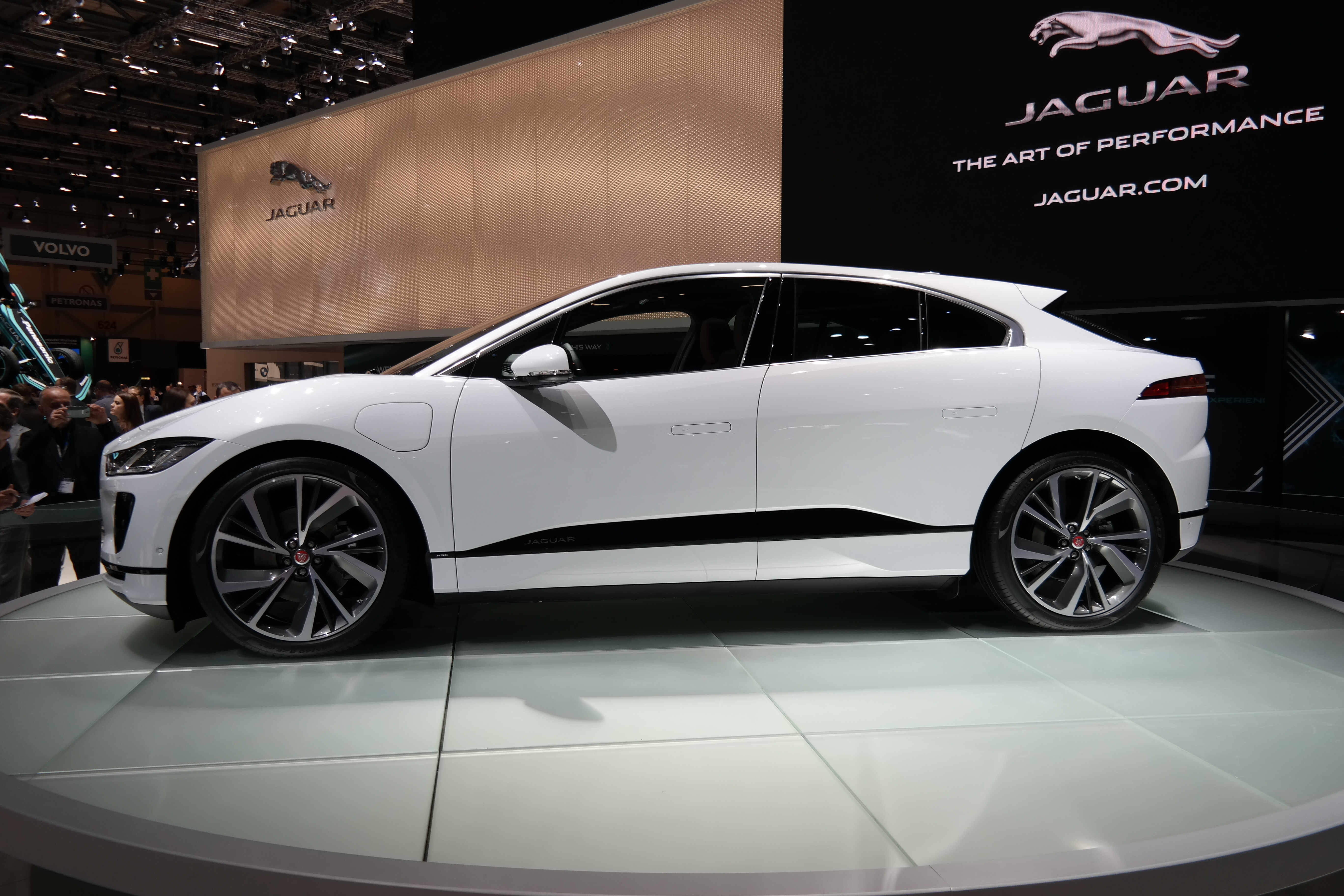 Geneva Motor Show 2018 (photo taken on the first press day)